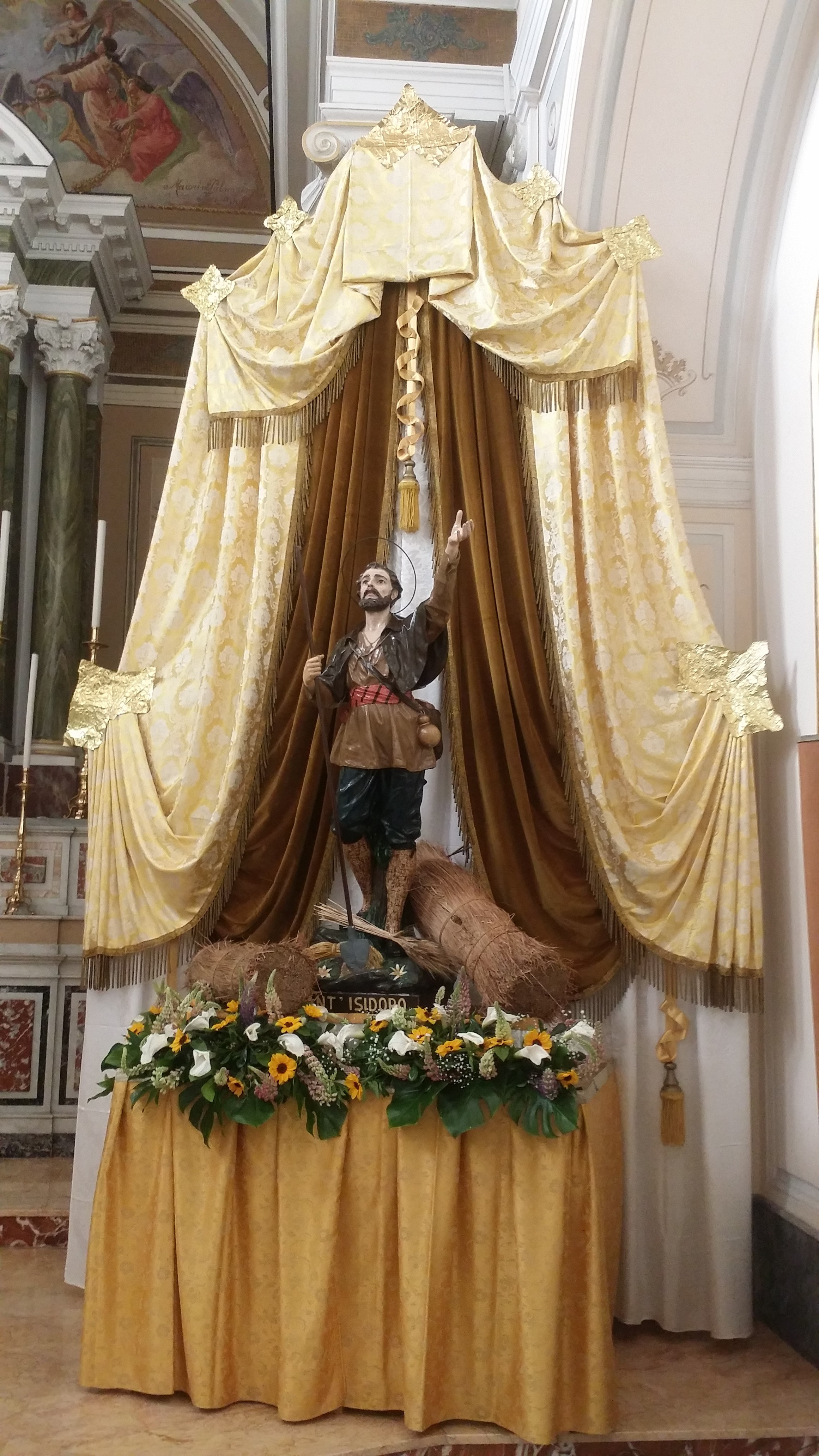 Plaster statue of Sant’Isidoro the farmer exposed at the main altar of the church of the Madonna della Pace-Angri (Sa).